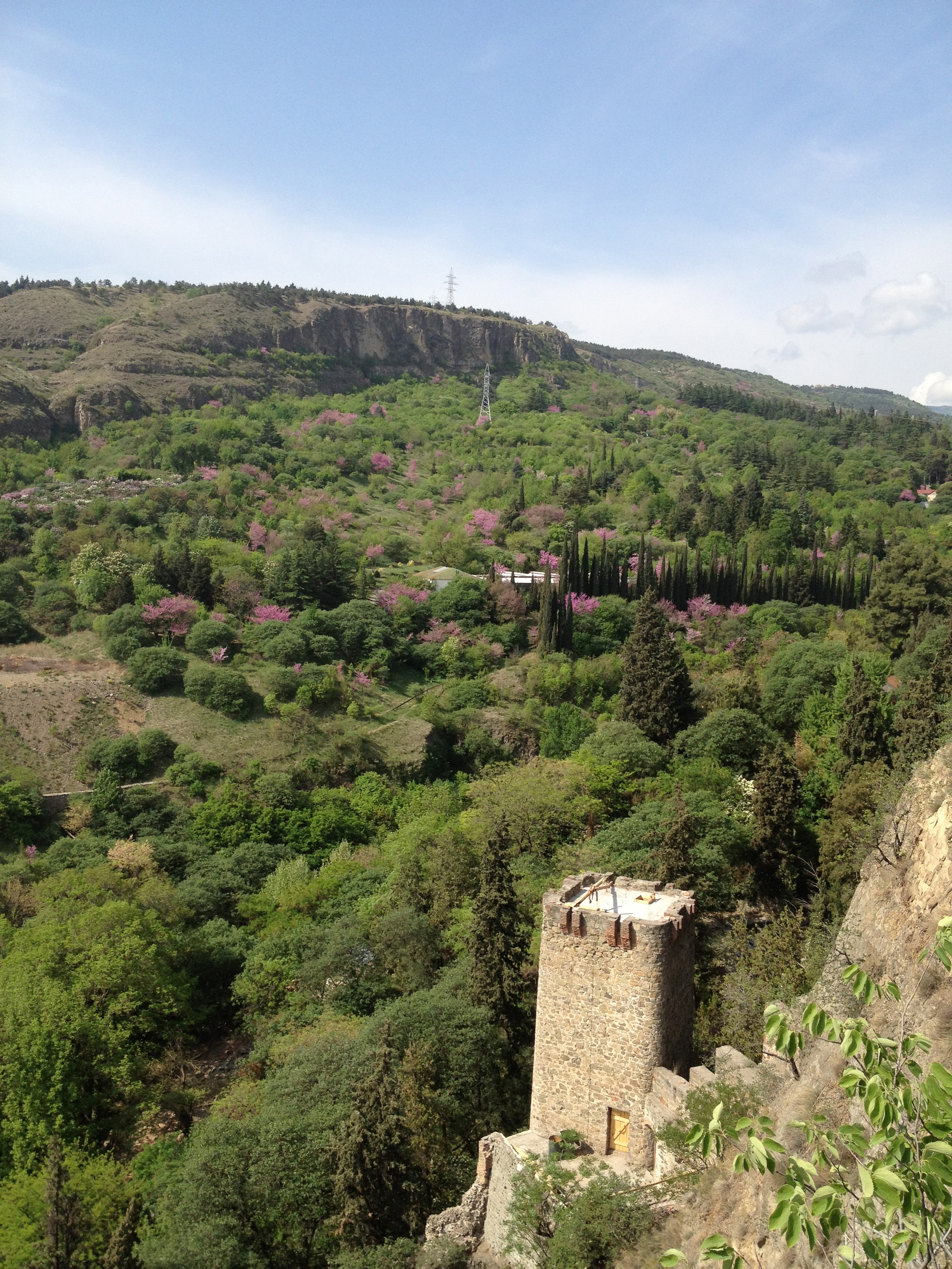 Tbilisi Botanical Garden and a tower of the Narikala Fortress, Tbilisi